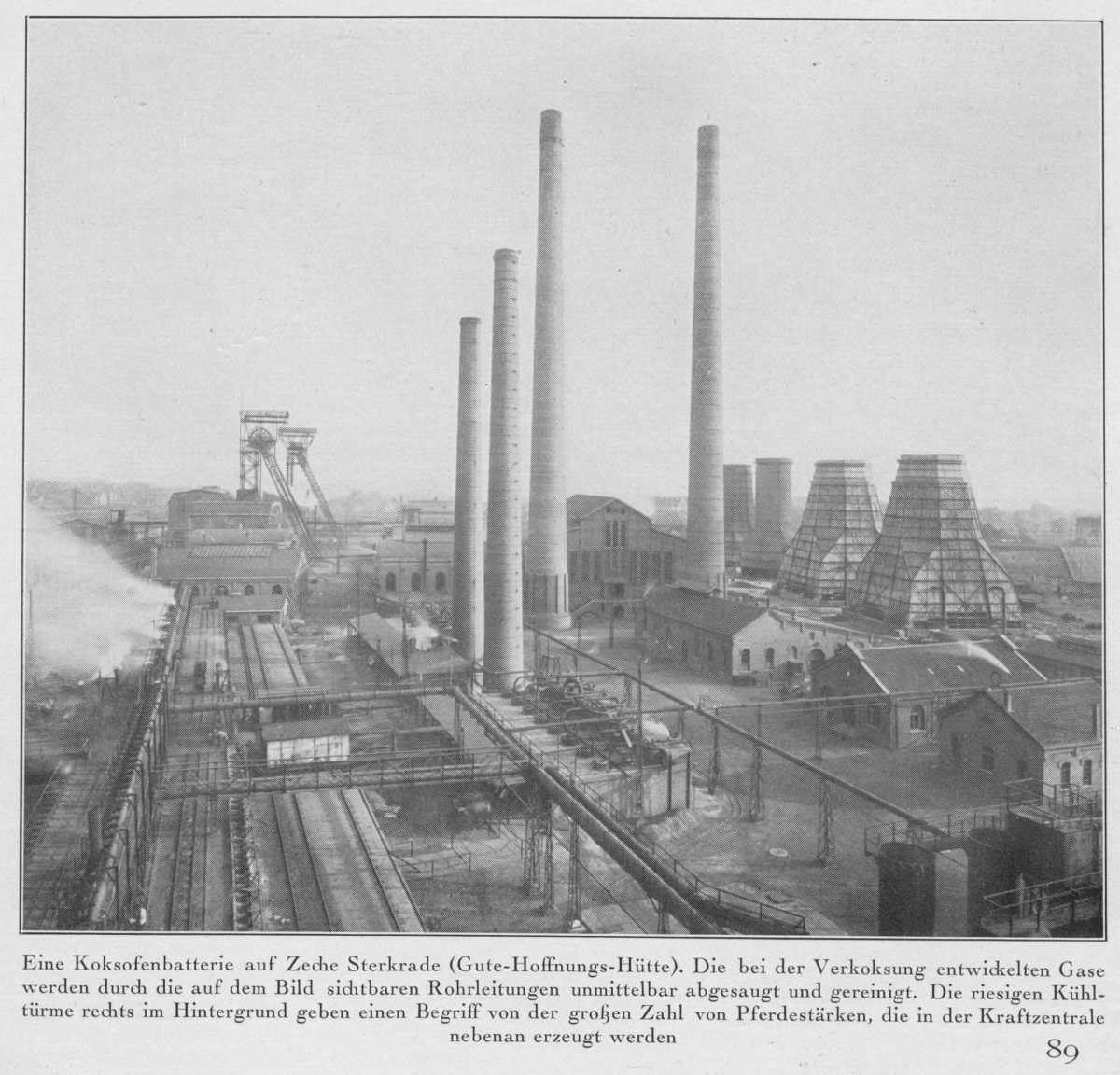 Zeche Sterkrade, Gutehoffnungshütte, 1920, Oberhausen, Germany